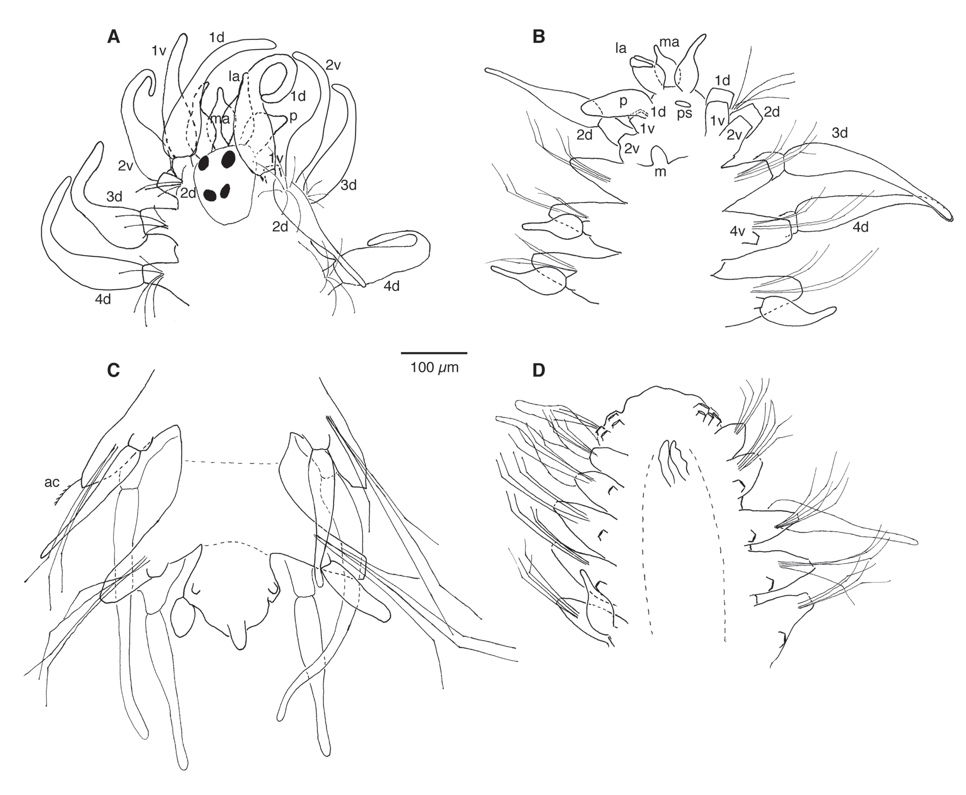 Fig. 1. Dysponetus joeli Olivier et al., 2012. A. NMW.Z.2009.027.0003, anterior end, dorsal view. B. NMW.Z.2009.027.0004, anterior end, ventral view. C. NMW.Z.2009.027.0003, posterior end, ventral view. D. Holotype (MNHN POLY TYPE 1533), anterior end, ventral view. Only a few chaetae drawn in each case for clarity. – ac = accessory chaeta, d = dorsal (cirrus/cirrophore), la = lateral antenna, ma = median antenna, m = mouth appendage, p = palp, ps = palp scar, v = ventral (cirrus/cirrophore); numbers indicate the segment.